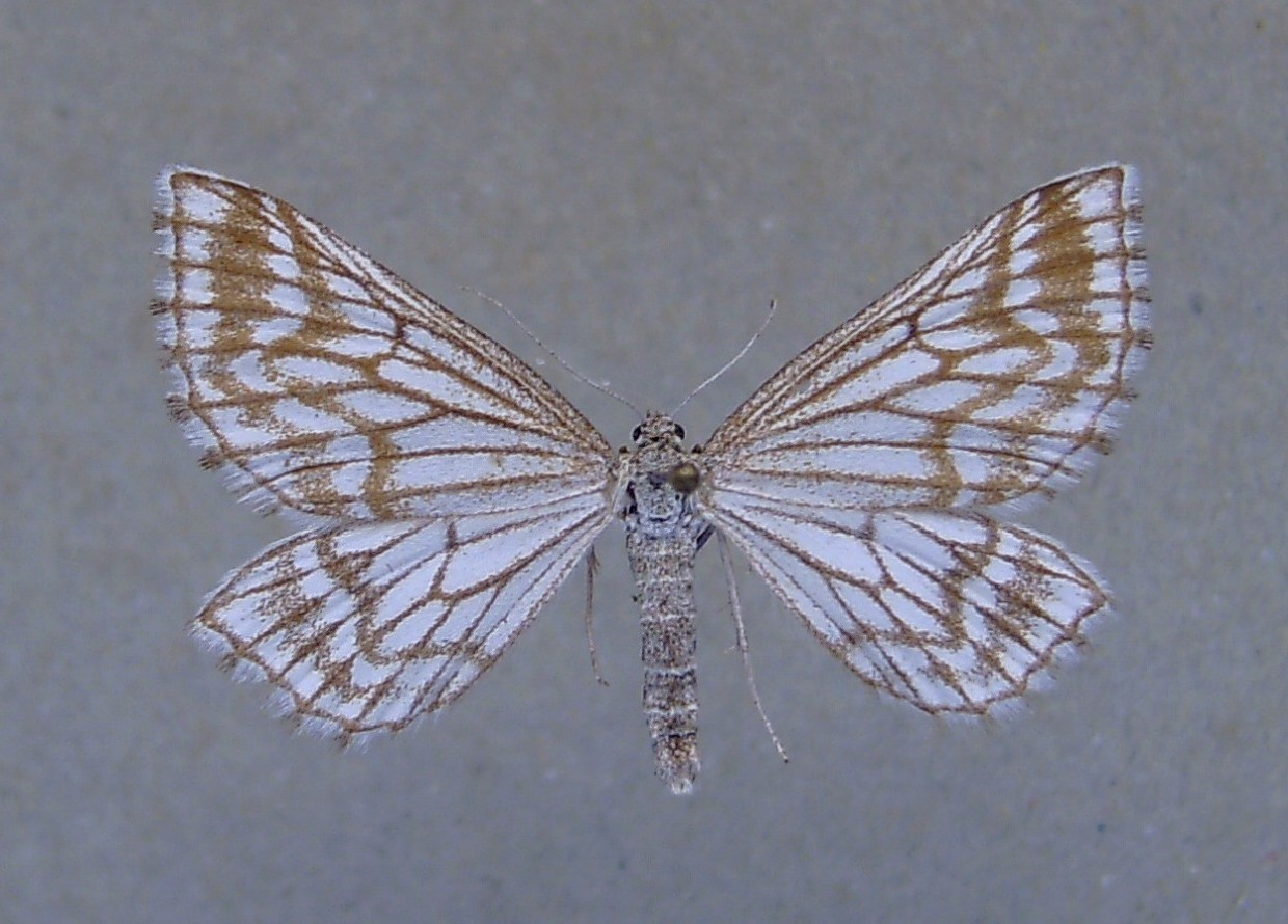 Schistostege decussata, Goriška brda, Slovenia